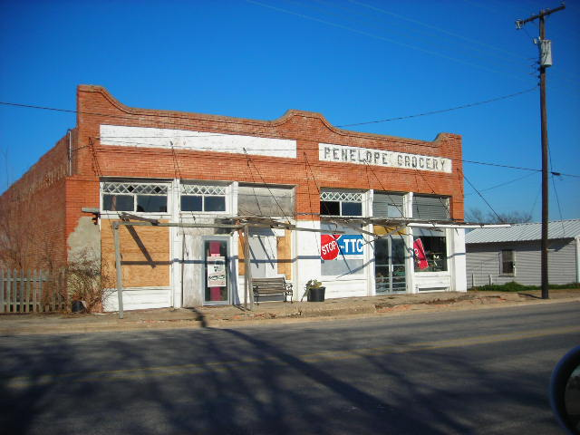 A former grocery store in Penelope, Hill County, Texas